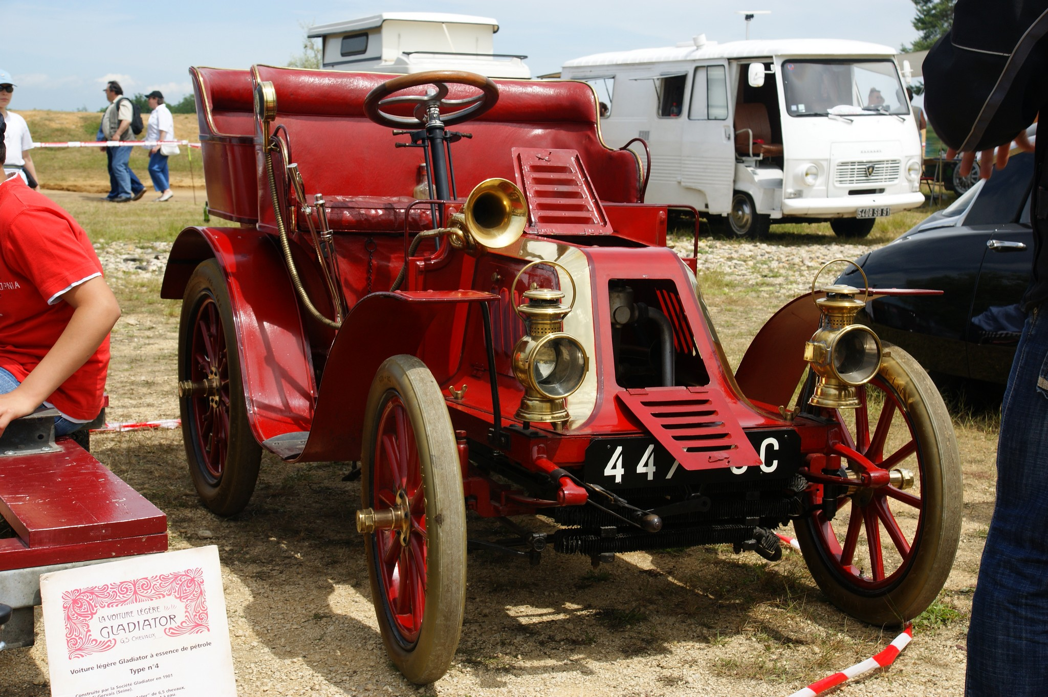 Gladiator Type n°4 The sign on the left reads: «The Gladiator light car 6,5 HP - Gladiator petrol oil light car - N°4-type - Built by the Gladiator company in 1901» reg number: 447—CC year: 1901 make: Gladiator body: double-phaeton cylinders: unknown horsepower: 6½